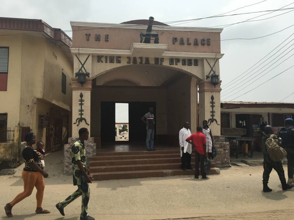 King Jaja